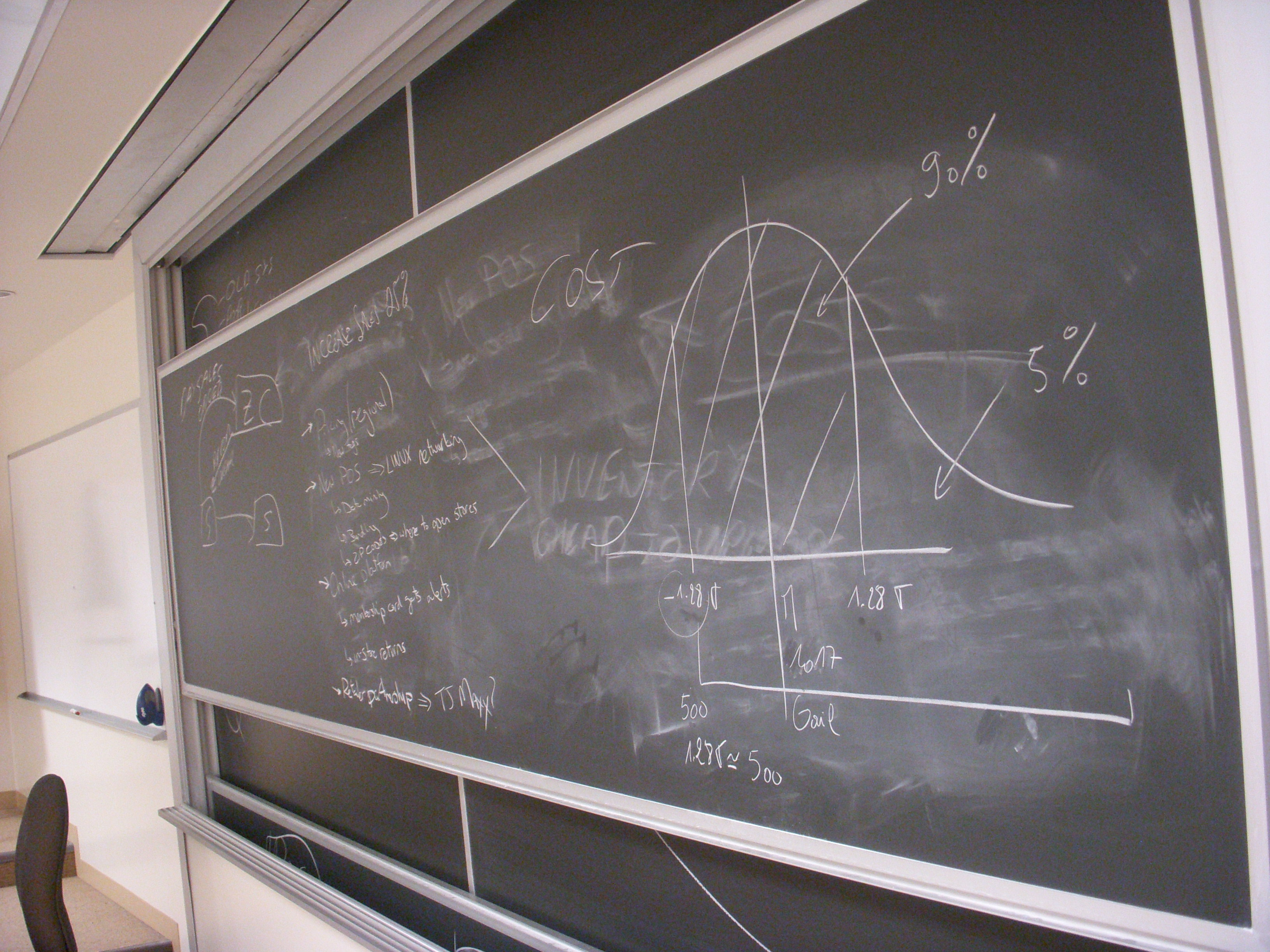 Hult Black Board